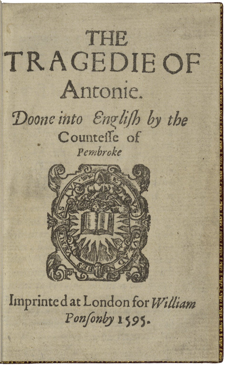 The title page of the 1595 edition of The Tragedy of Antony, translated into English by Mary Sidney Herbert, Countess of Pembroke.